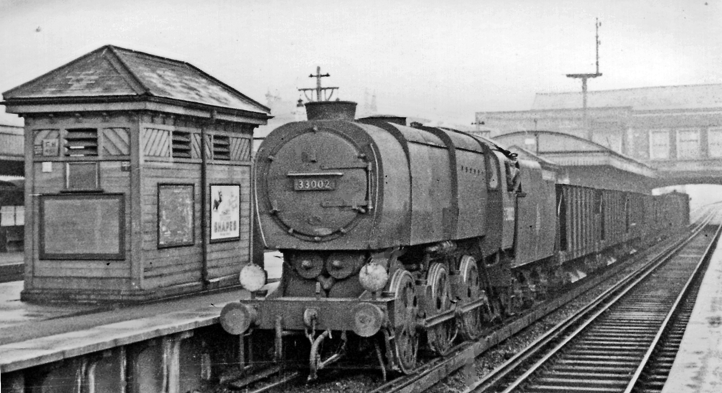 New Cross Gate station, with Up empties train. View southward, towards Norwood Junction, Croydon etc.: ex-LB&SC main line from London Bridge. The train of bogie stone hopper wagons is headed by Bulleid wartime class Q1 0-6-0 No. 33002 (built 5/42 as No. C2, withdrawn 7/63). (Over on the left can just be glimpsed an LPTB East London Line train).